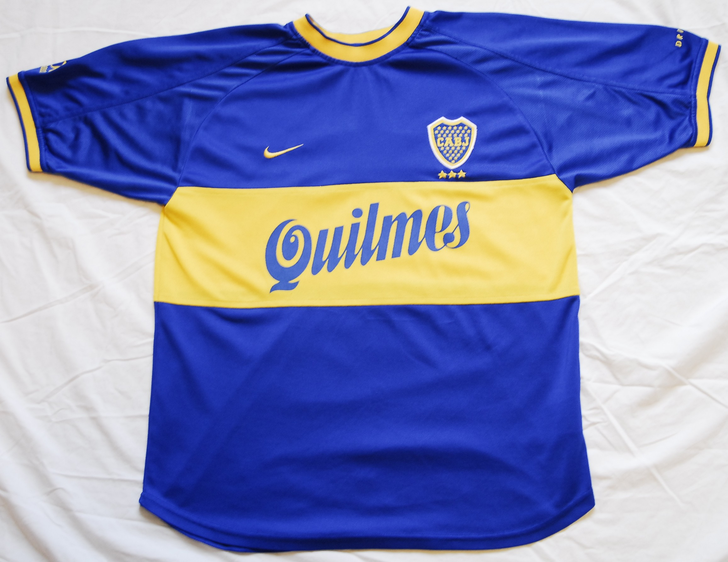 Boca Juniors 2000 Home Jersey